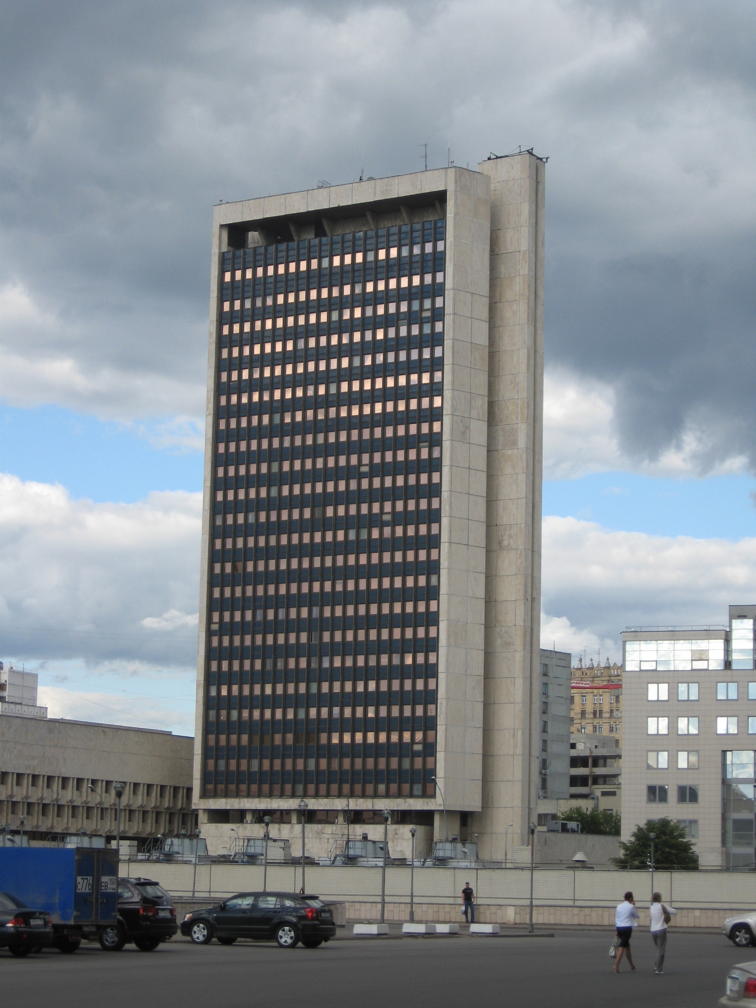 Roscosmos buildings - Moscow, Schepkina Street